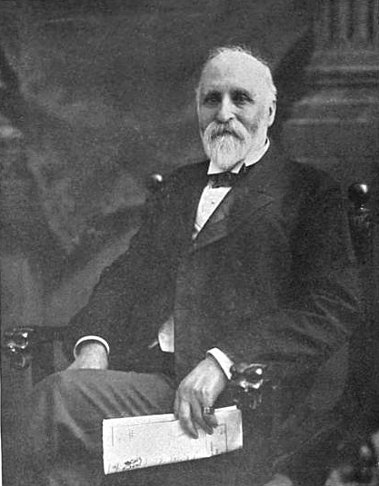 Portrait of Richard H. Stearns (1824-1909), who founded R.H. Stearns & Co. in 1847.